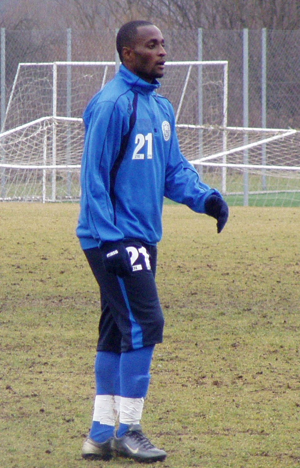 Roguy Méyé is a football striker from Gabon